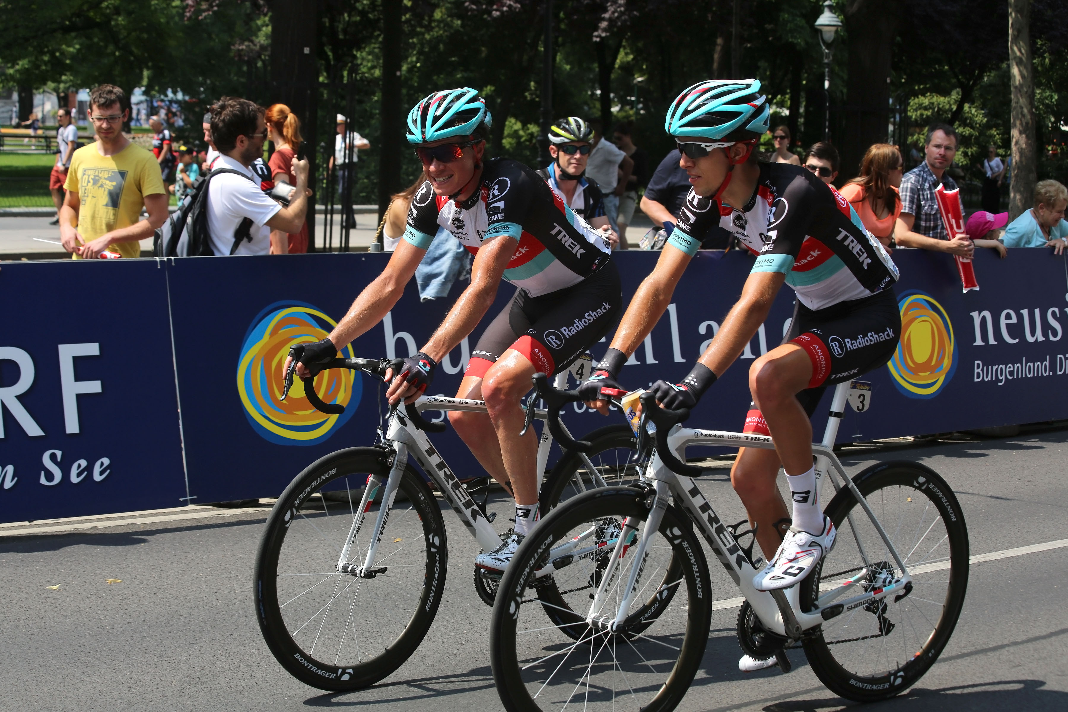 Ben King (4) and George Bennett (3) after finishing the final stage of the Tour of Austria in Vienna, Austria.